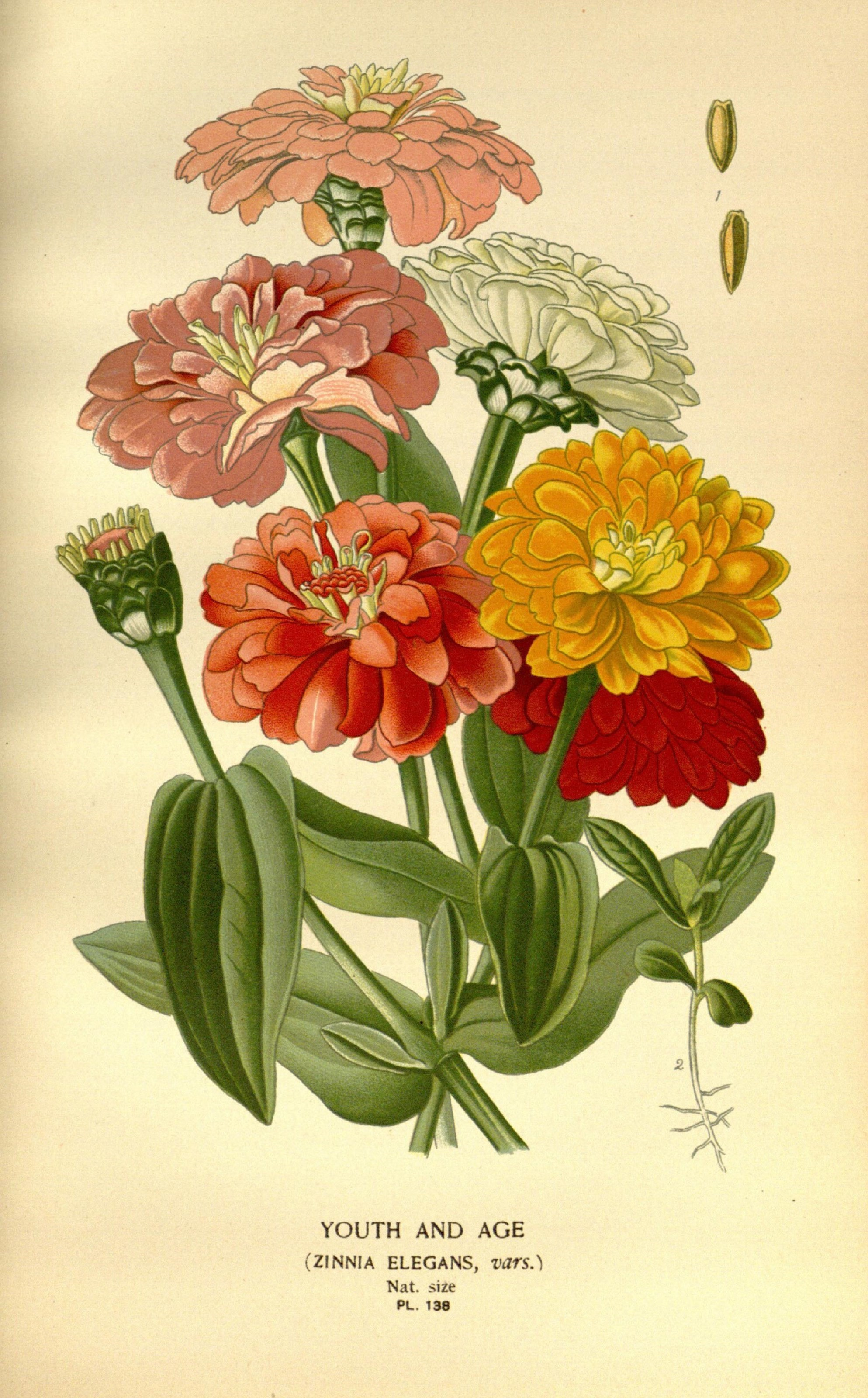 Favourite flowers of garden and greenhouse /by Edward Step ... ; the cultural directions edited by William Watson ... ; illustrated with three hundred and sixteen coloured plates, selected and arranged by D. Bois.